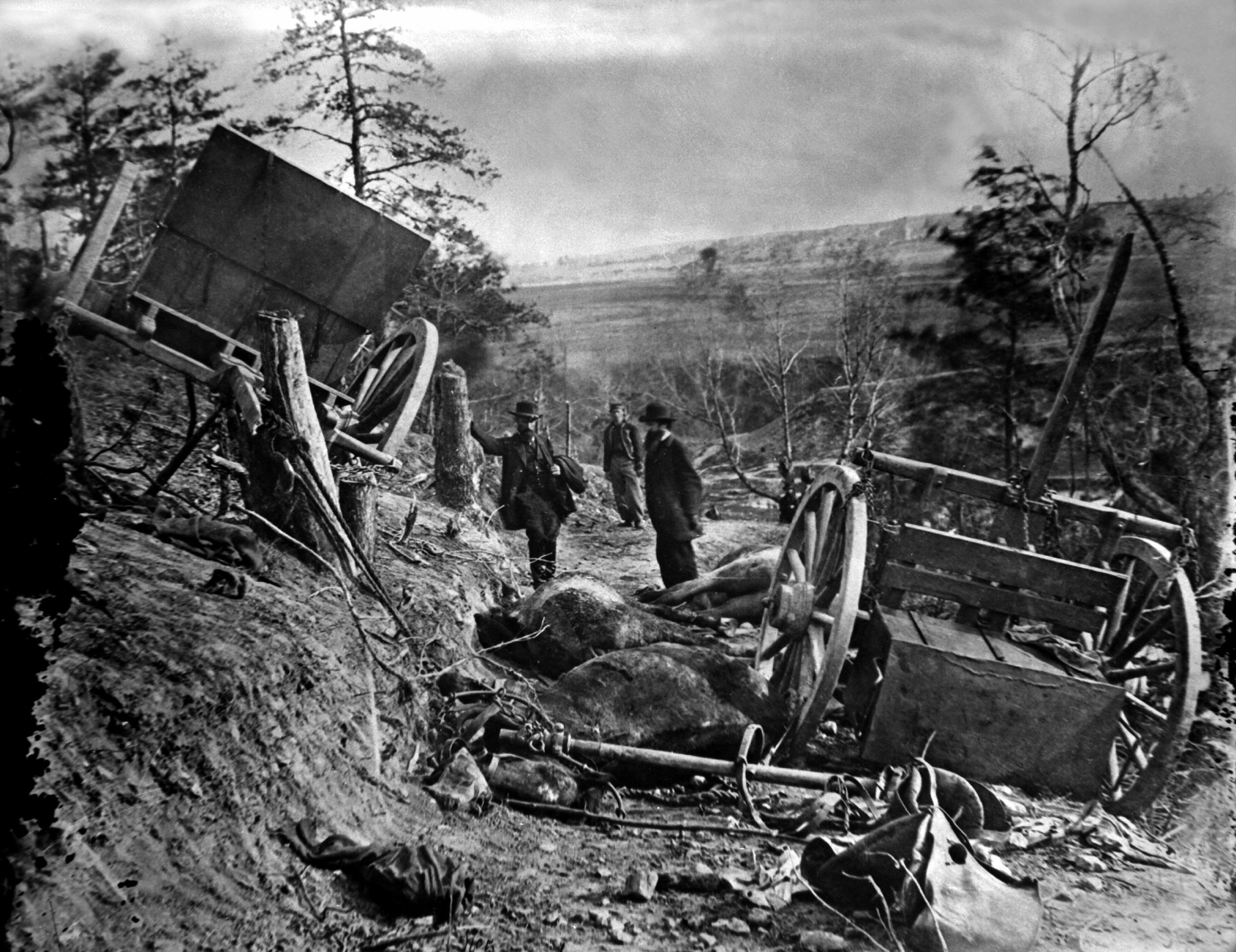 "Havoc," effects of a 32-pound shell from gun of Second Massachusetts Heavy Artillery. Confederate caisson and eight horses destroyed. Fredericksburg, May 3, 1863. Capt. Andrew J. Russell. Mathew Brady Collection. (Army) NARA FILE #: 111-B-74 WAR & CONFLICT BOOK #: 257 Location: FREDERICKSBURG, VIRGINIA (VA) UNITED STATES OF AMERICA (USA)